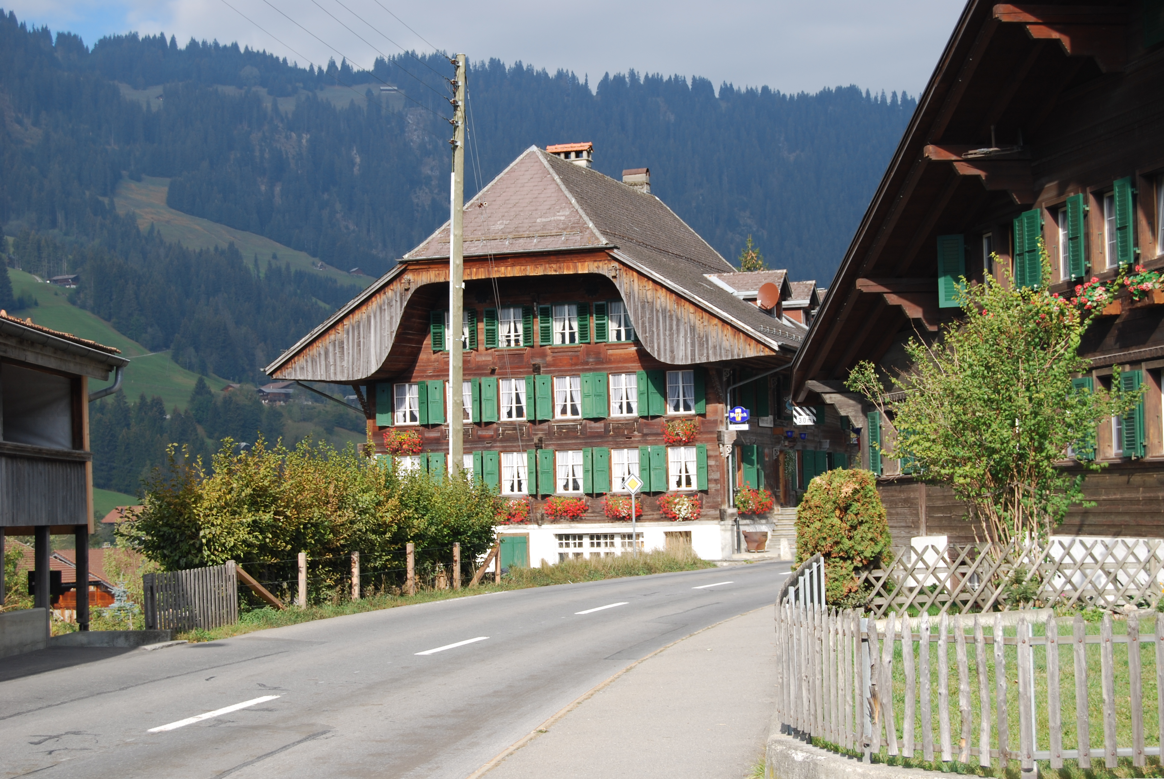 St. Stephan, canton of Bern, SwitzerlandEsperanto: Sankt-Stefano, Kantono Berno, Svislando